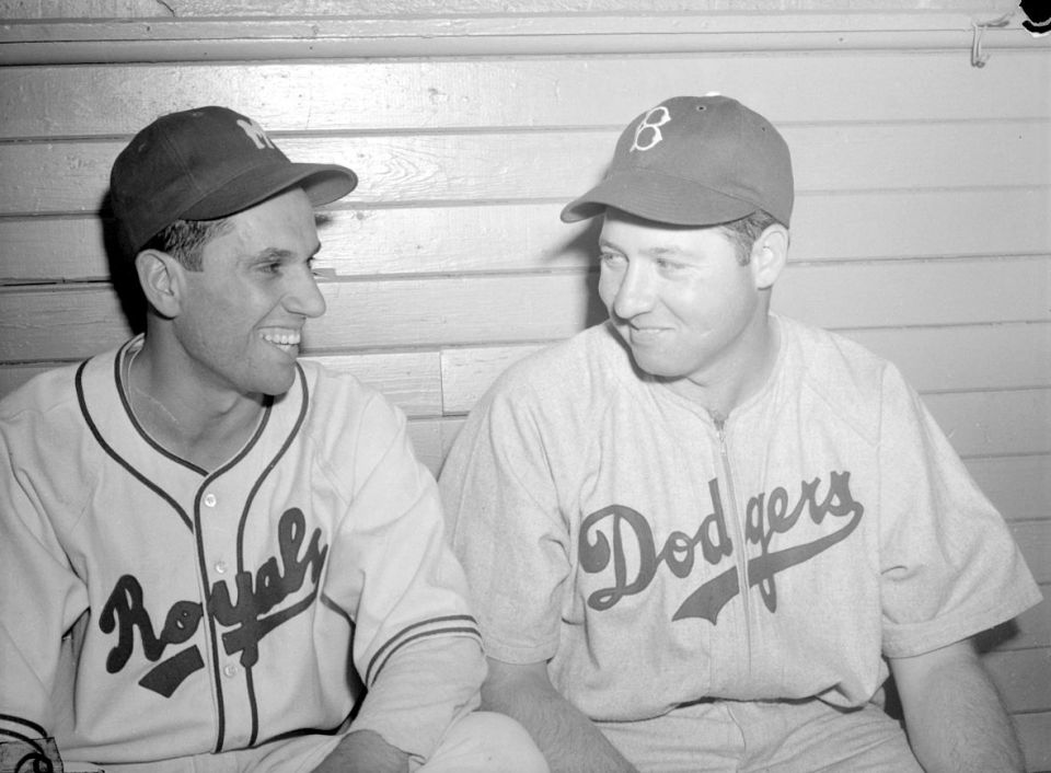 We see two baseball players. Hugh Casey played with the Brooklyn Dodgers and Jean-Pierre Roy with the Montreal Royals.